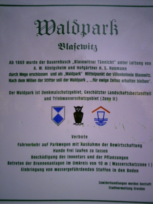 info board in Waldpark Blasewitz